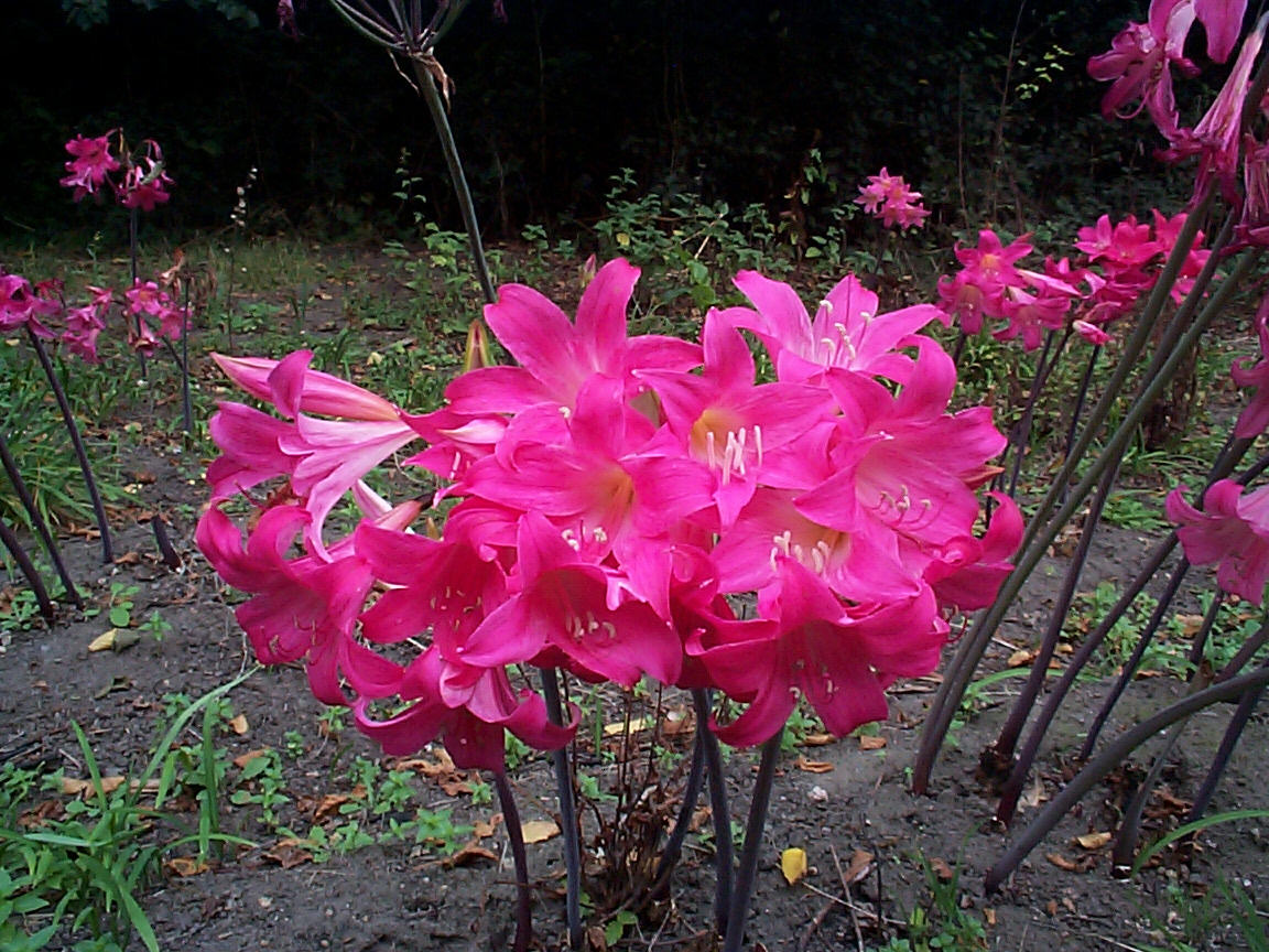 Amaryllis Belladonna at Sunnyside Farm, Isles of Scilly, UK